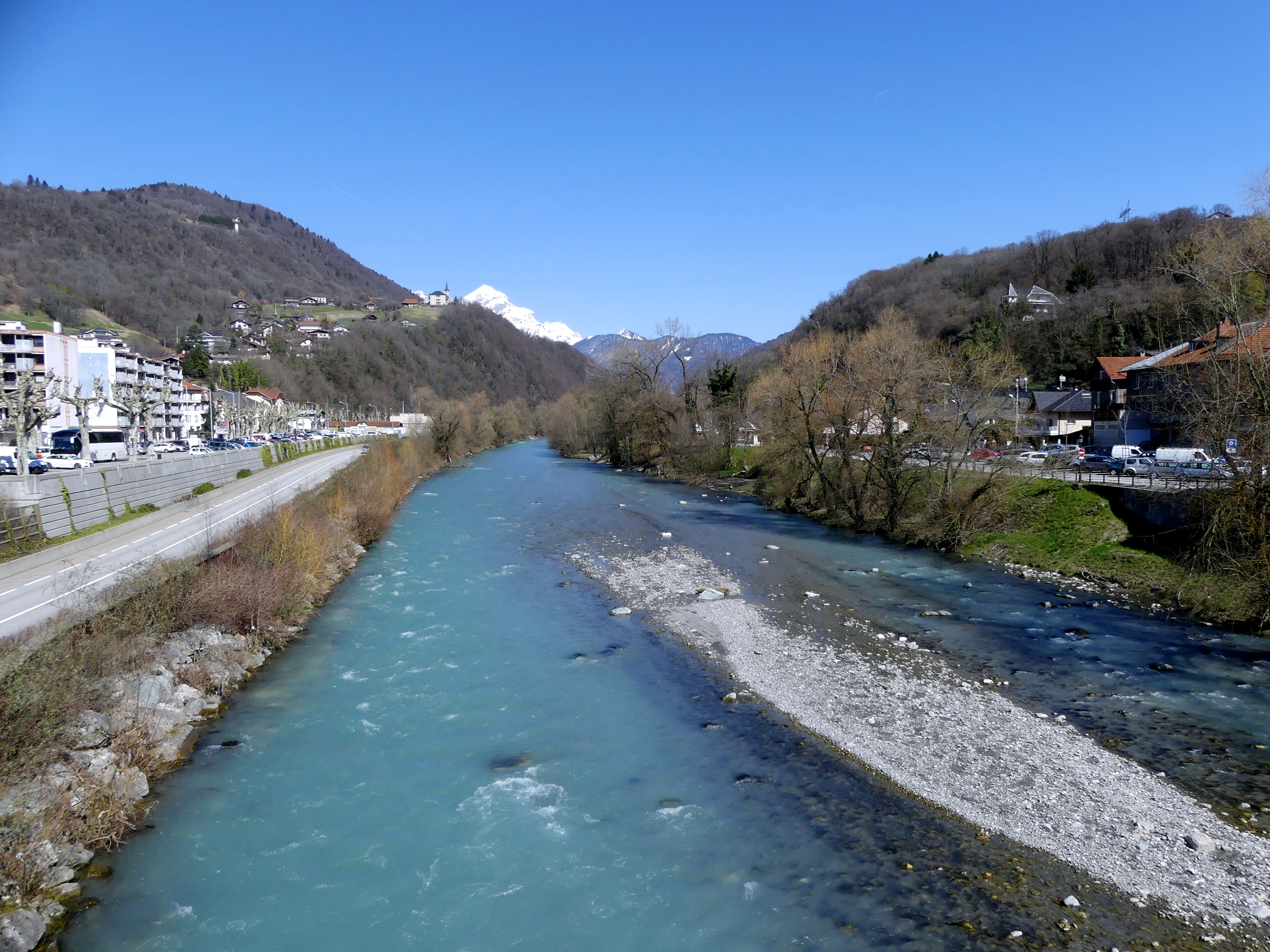 Sight of the Arly river crossing the city of Albertville, in Savoie, France. It flows into the Isère river about 1 km further (behind the picture).